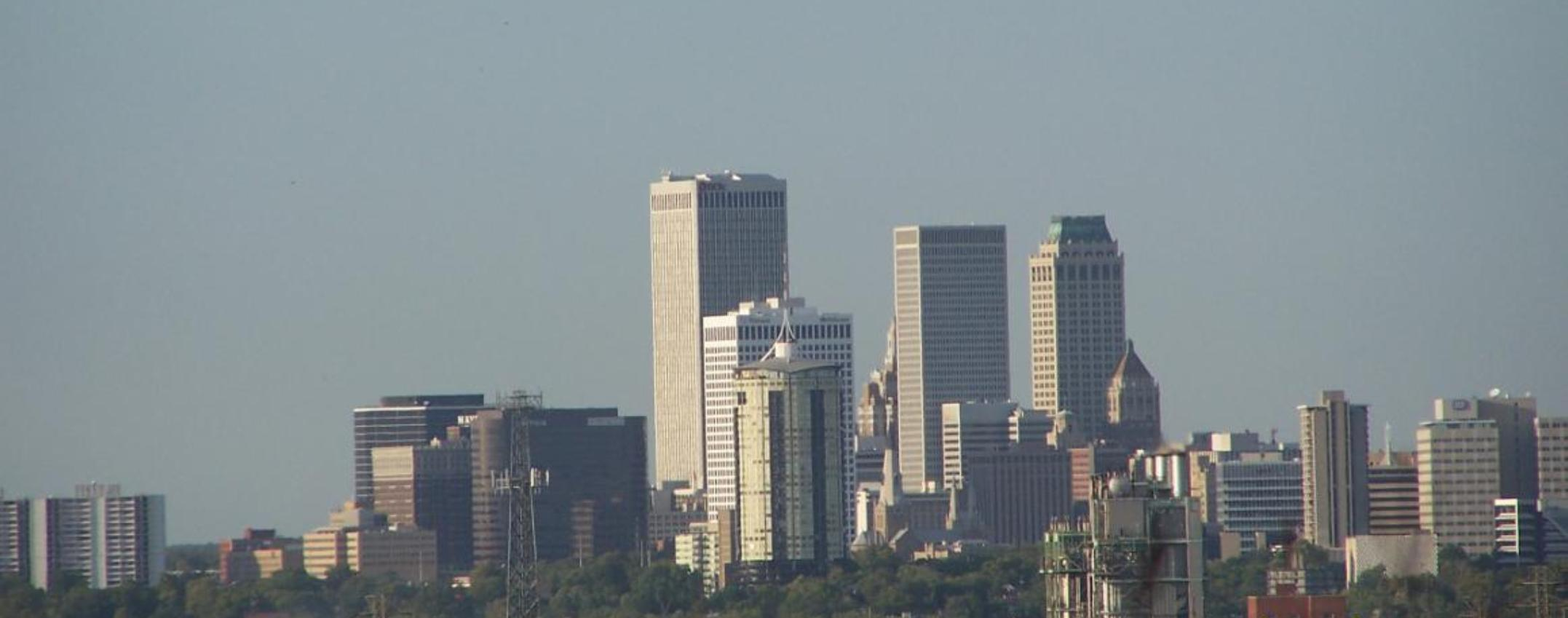 The Tulsa skyline in Oklahoma as viewed from Turkey Mountain. Taken by myself.